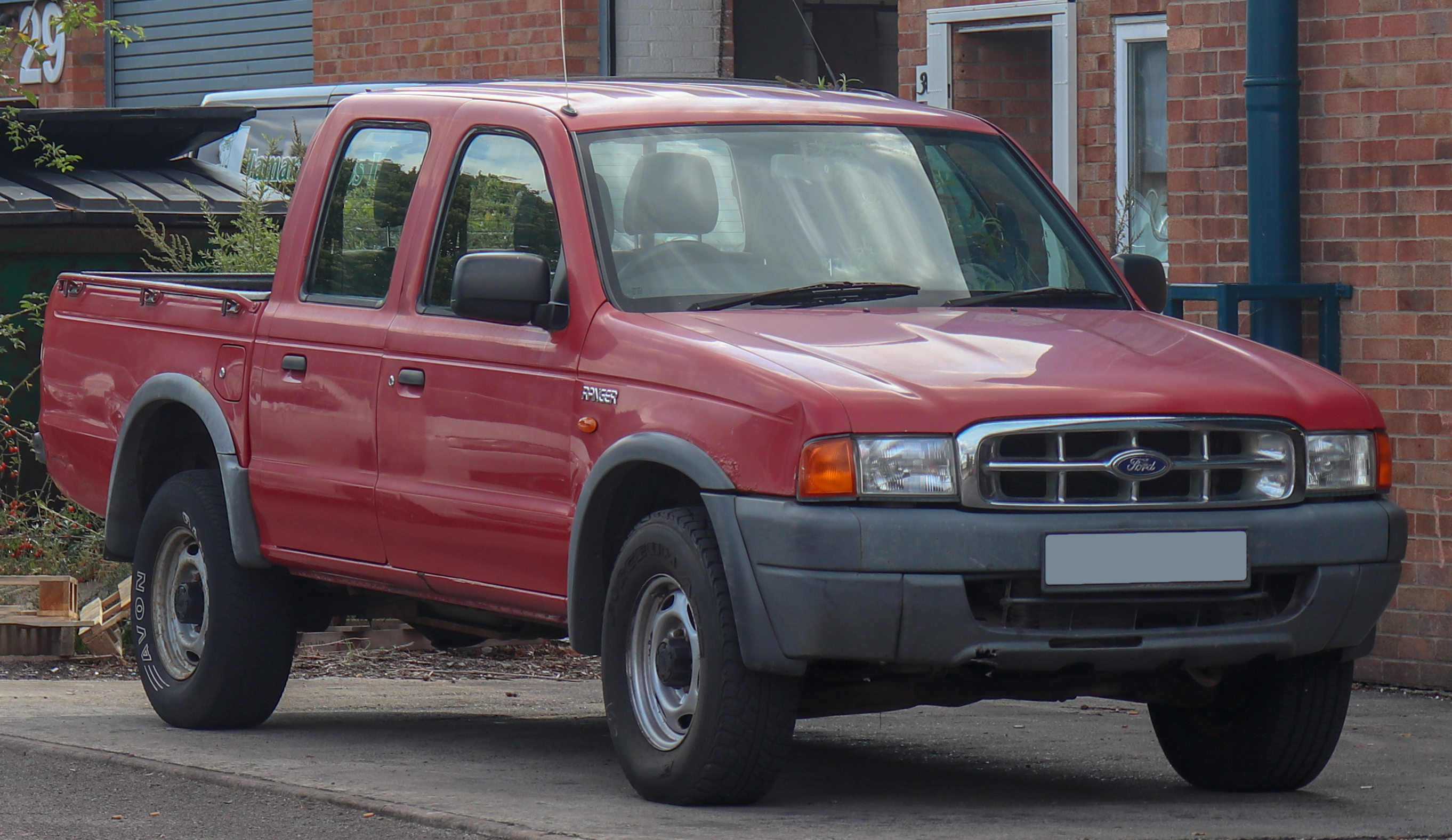 2001 Ford Ranger 4X4 Turbo Diesel 2.5 Taken in Sydenham, Leamington Spa